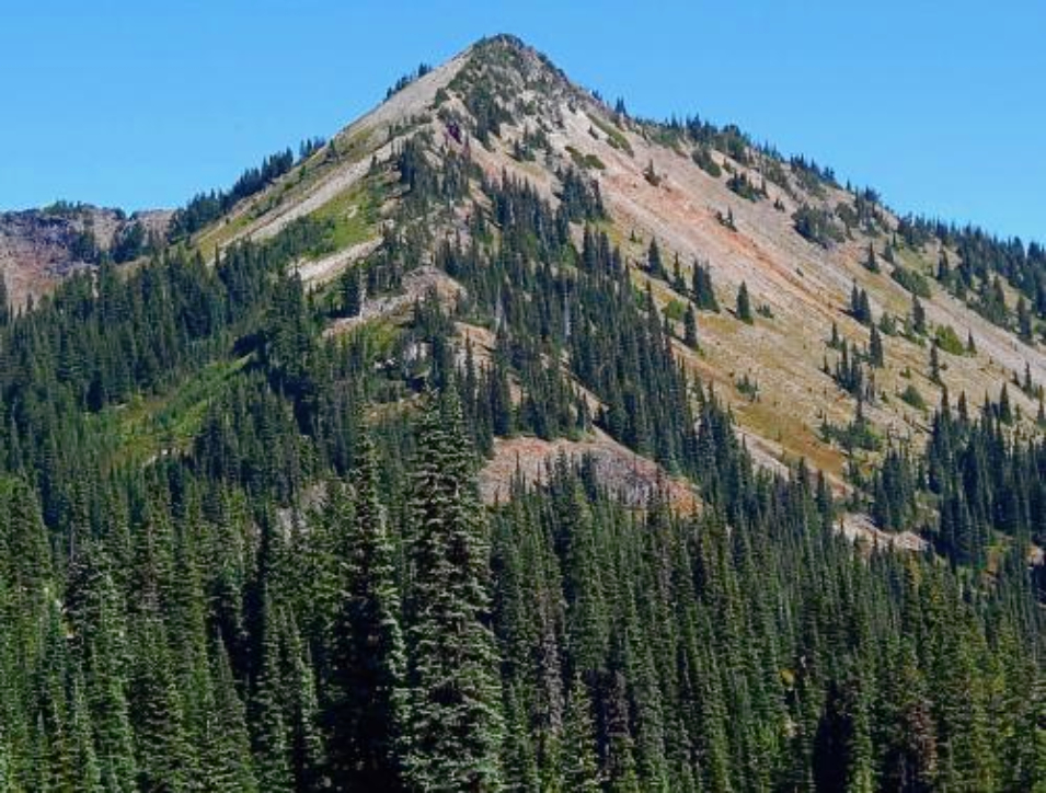 Tahtlum Peak seen from the west. September 12, 2014.